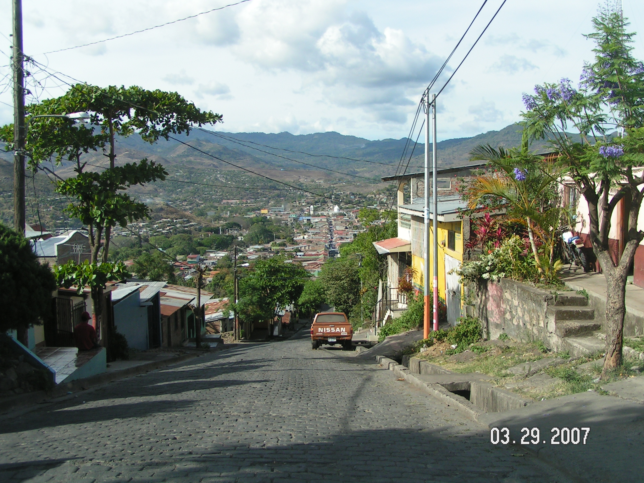 Matagalpa main street (Avenida de Las Tiendas) to Parque Morazan and Cathedral